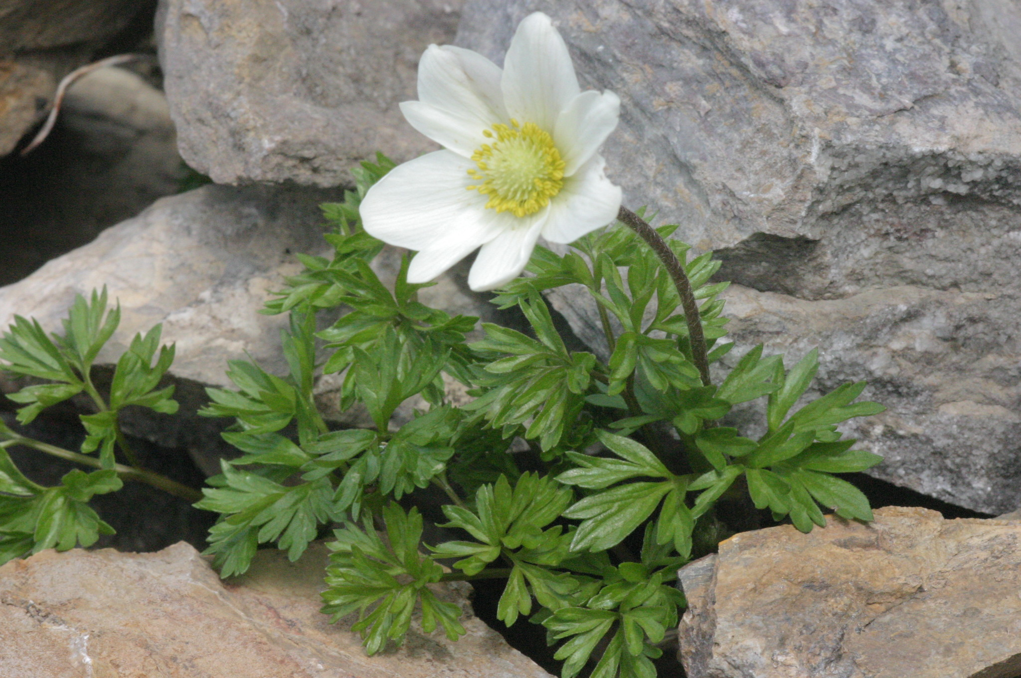 Anemone baldensis